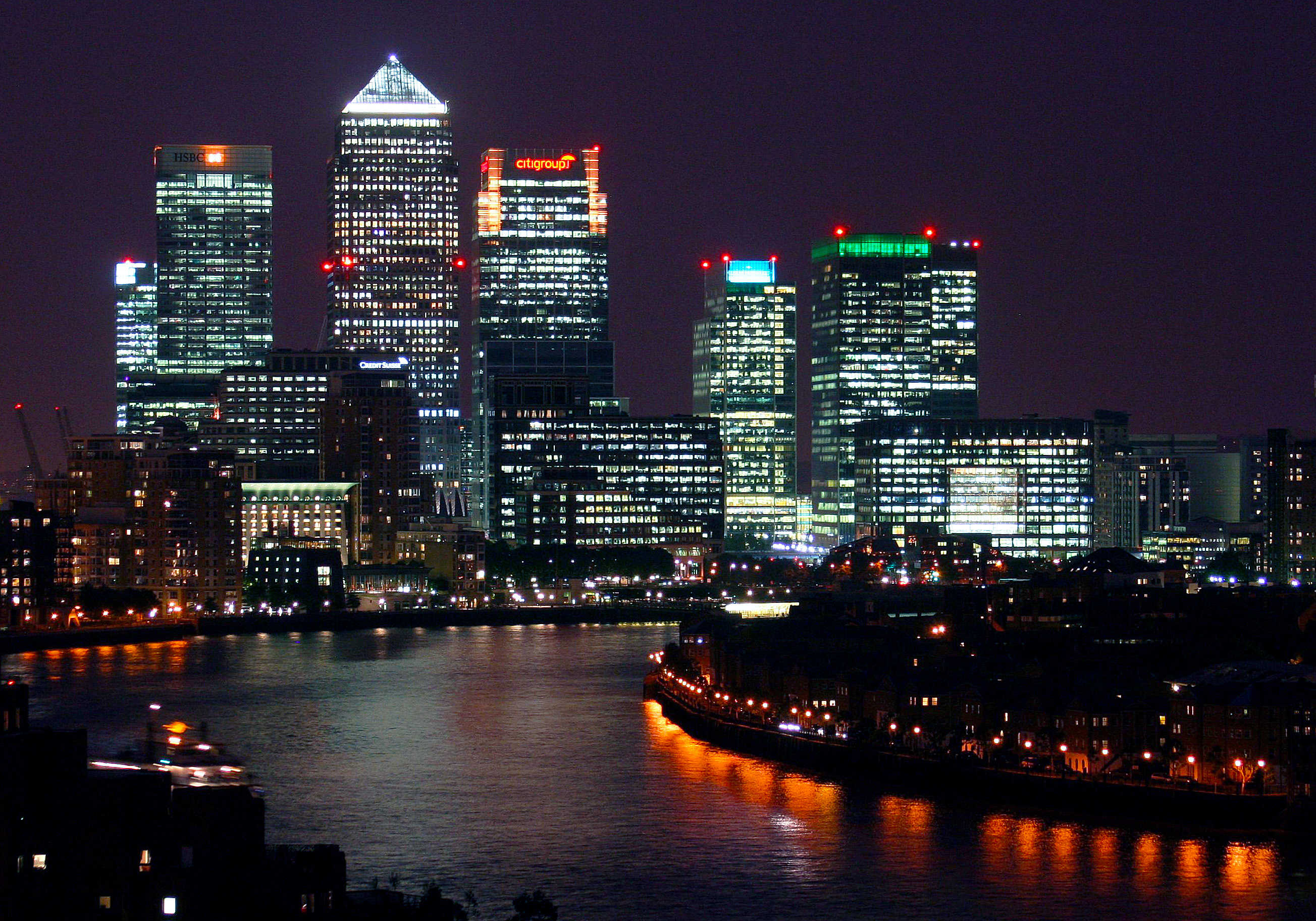 Canary Wharf at night, viewed from Shadwell.